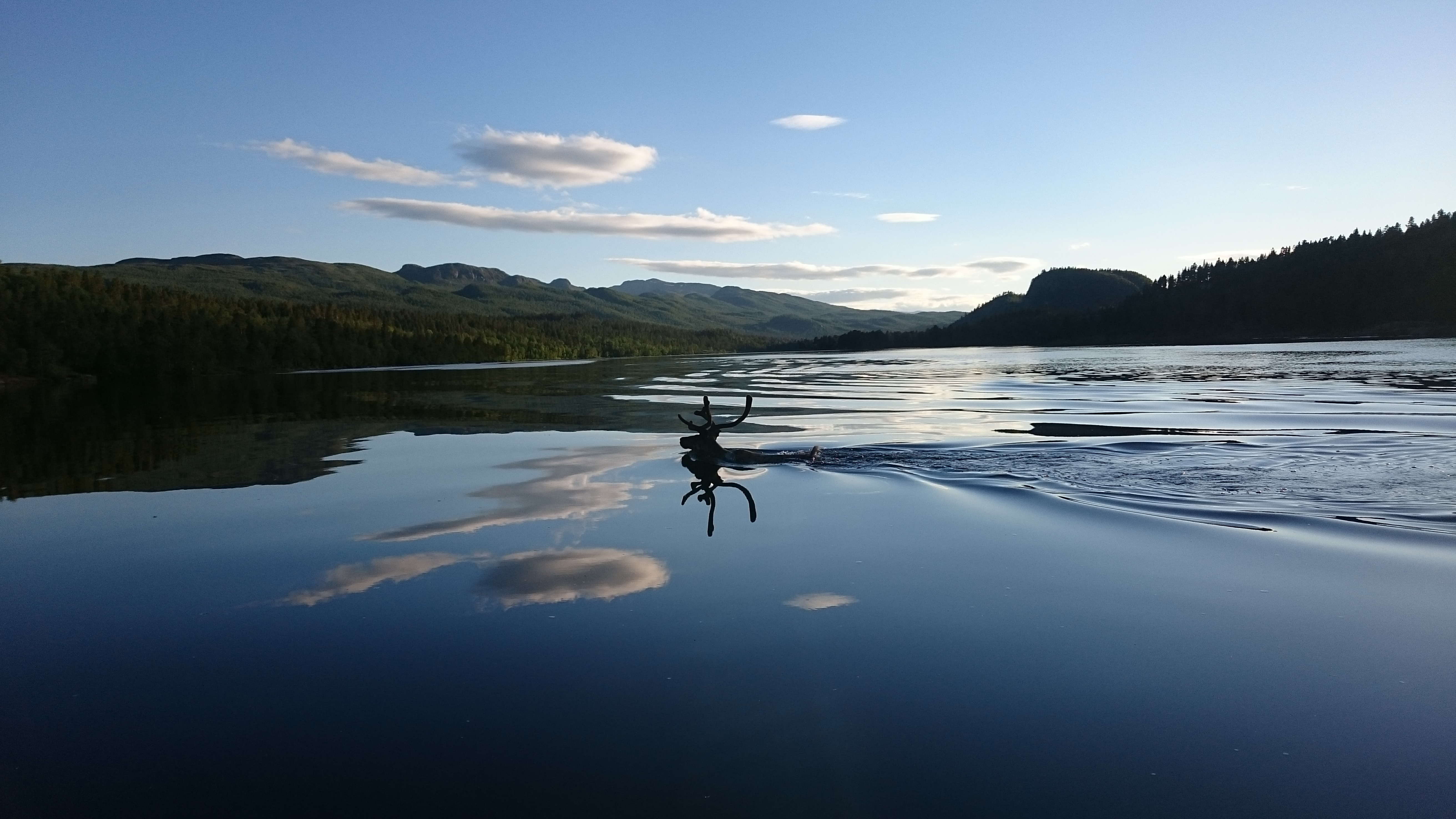 "Laisdalen-naturreservat", Laisvall, Northern Sweden View to "Krappesvare"